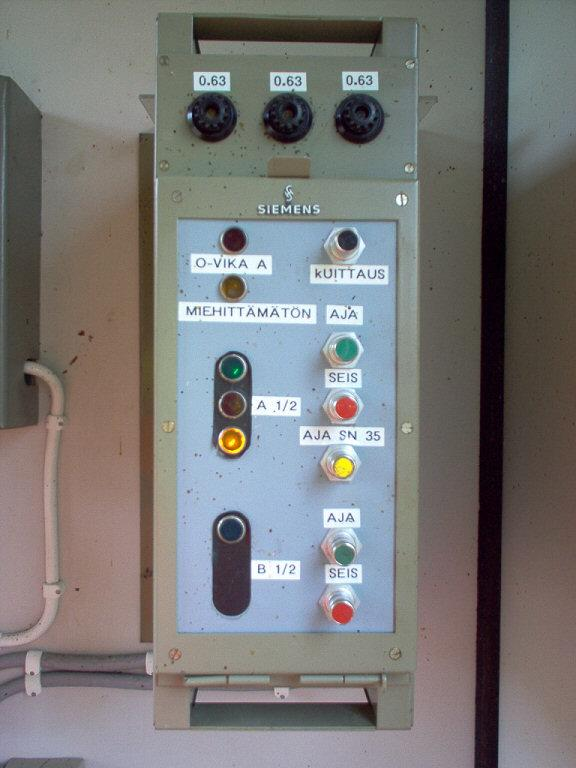 Signal control panel located at the siding/loop switch of Arola railway station in Finland. The control panel is a part of the "Switch lock and signal safety apparatus" used on low-traffic-density railway lines in Finland. Route is set from Kontiomäki on to track #2 and home signal A½ is cleared to show "Clear 35" ("Slow Clear")